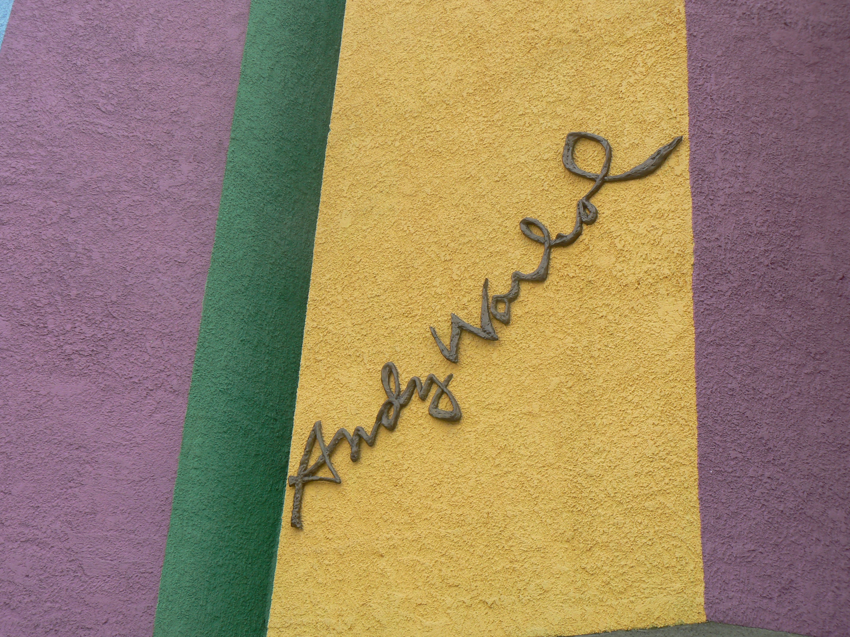 Andy Warhol Museum of the Modern Art Medzilaborce, Slovakia